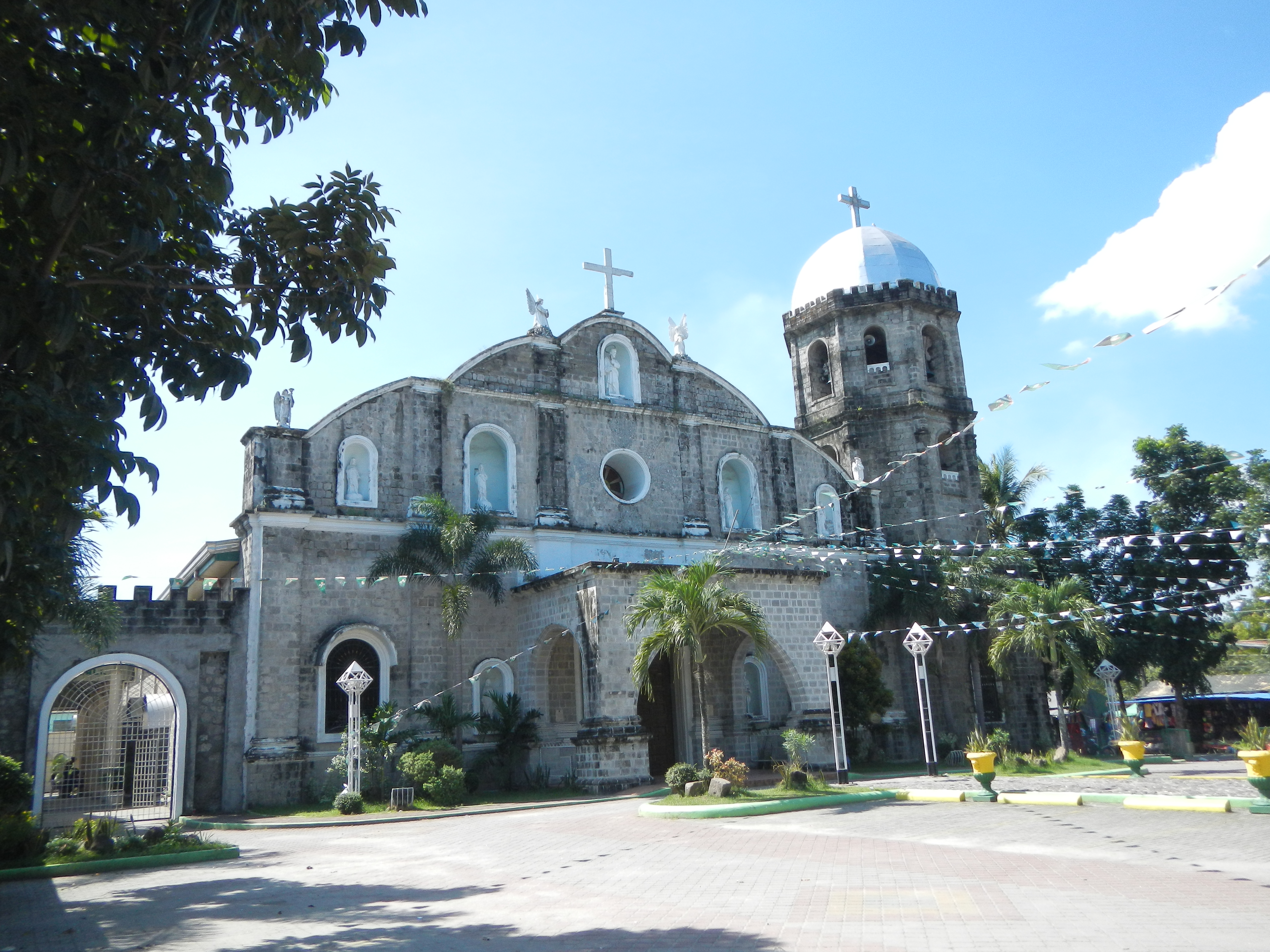 St. Bartholomew Parish Church Fiesta: August 24[1]Magalang, Pampanga[2][3][4]